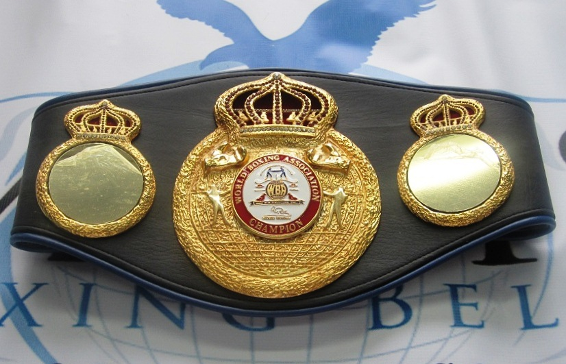 This is a world class WBA Championship Belt